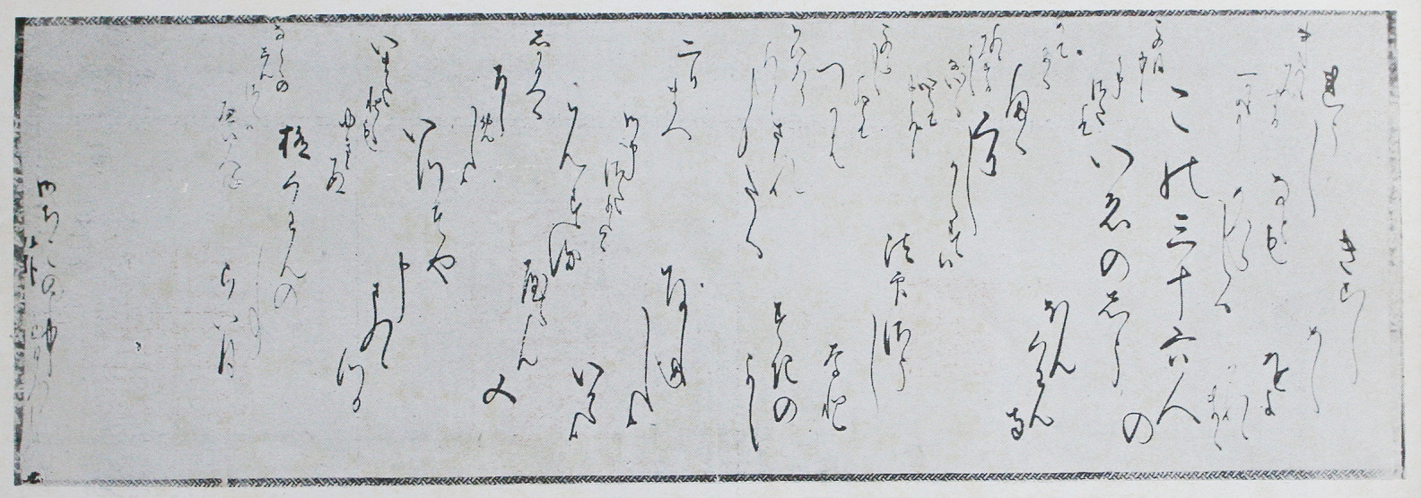 Document by Emperor Go-Nara（1495 – 1557） added to the Collection of the works of thirty six master poets in the NISHI-HONGANJI, Kyoto. Most luxurious illuminated manuscript books survived from ancient Japan.